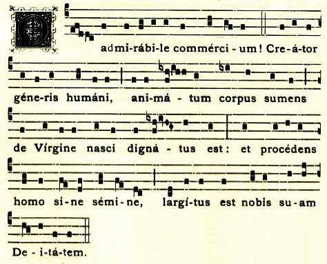 Christmas antiphon O admirabile commercium